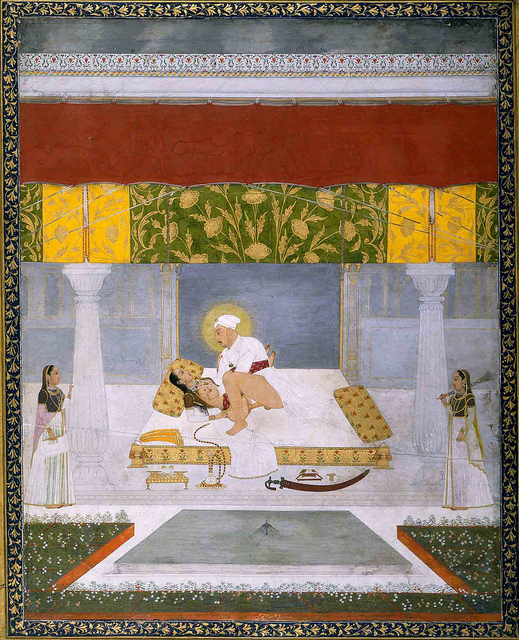 The Biographical Dictionary of Delhi – Muhammad Shah Rangila, b. Fatehpur Sikri, 1702-1748 A painting of Muhammad Shah having sex with one woman, while two others similarly clad stand watching and possibly waiting their turn.